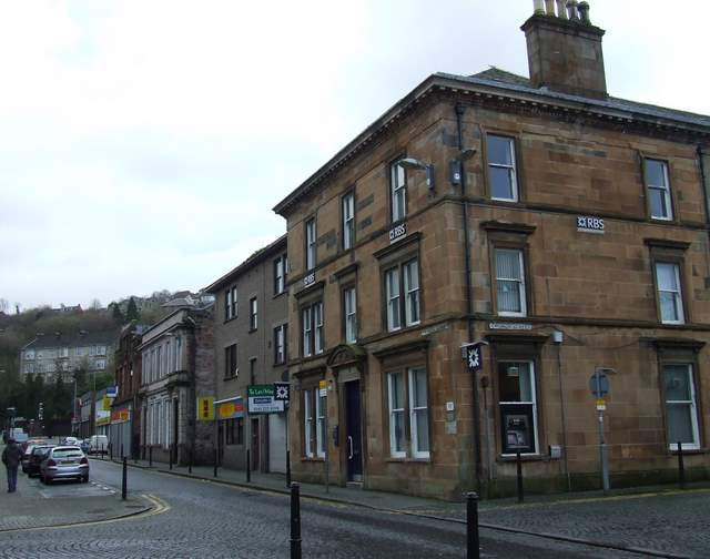 Princes Street Looking across Church Street towards the railway station.